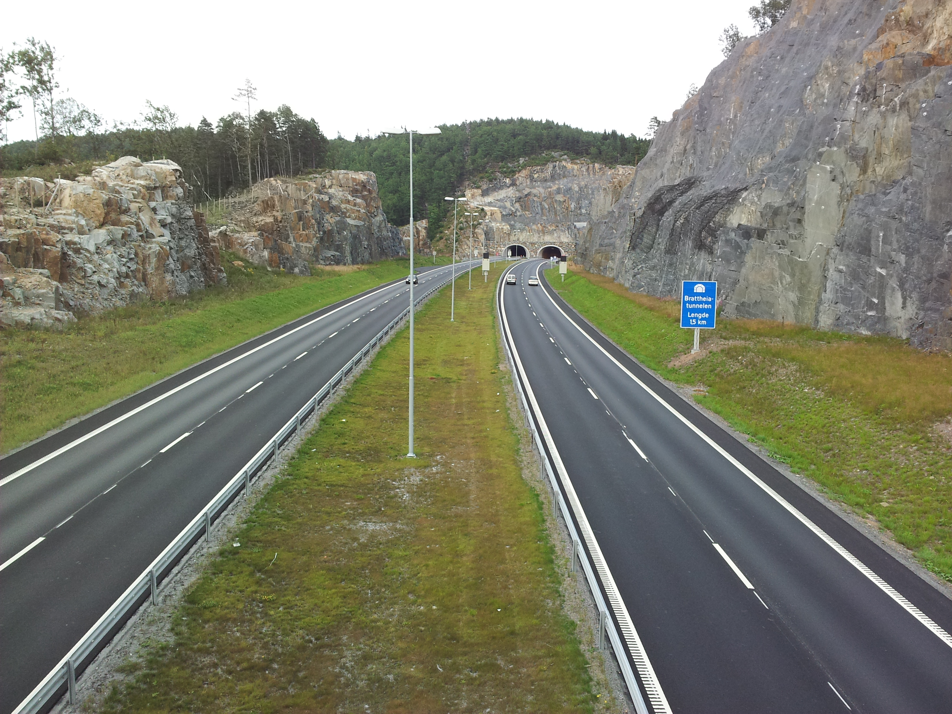 E18 in Norway, near Lillesand, in front of Brattheia tunnel